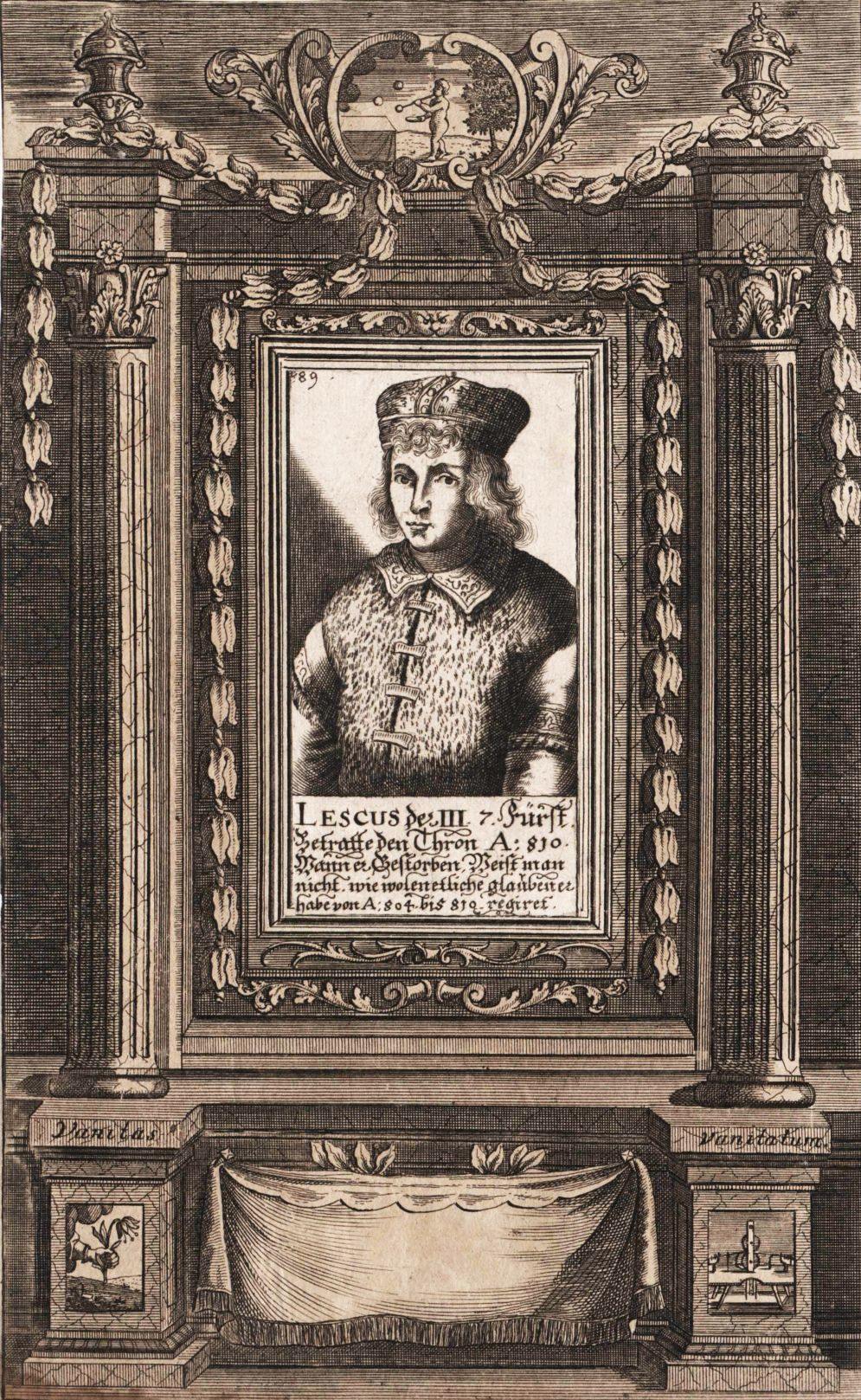 Lestek (also Leszek, Lestko) was the second duke of Poland, and son of Siemowit, born c. 870–880.